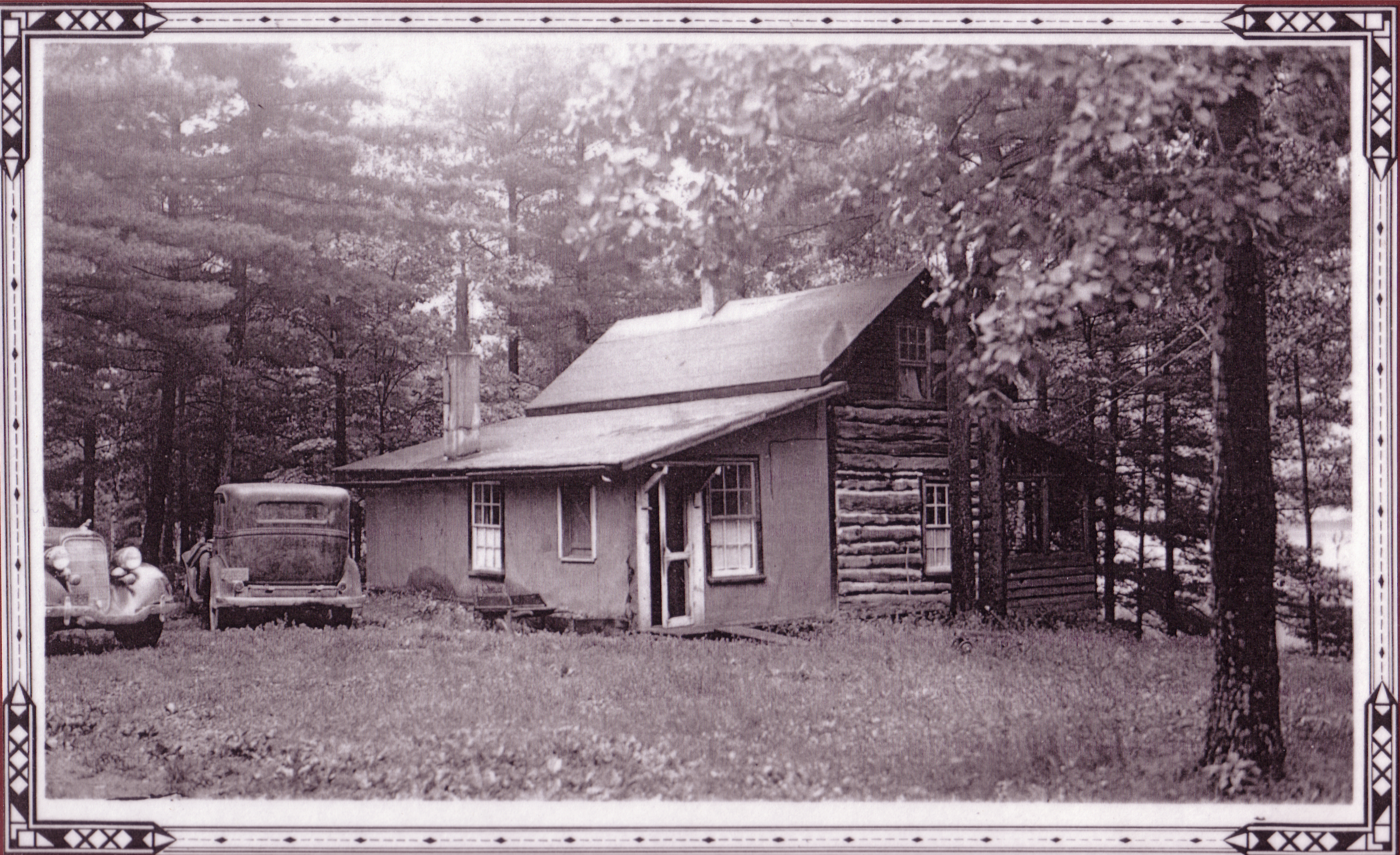 This photo is one of a series of 19 photos taken in 1935 of the various outbuildings of the famous Bon Echo Inn. The Inn was destroyed by fire from a lightning strike one year later. This was the cottage Mike Schwager (Bon Echo Mike) used during his tenure at Bon Echo as caretaker. He stayed in the cottage year round and looked after the Bon Echo property for Merrill Denison. Mike was hired shortly after the Inn fire and remained on the property until his death in 1974 at the age of 91. The cottage is now gone but the location is marked with a cairn in the clearing where the annual Bon Echo Art Exhibition & Sale is held.